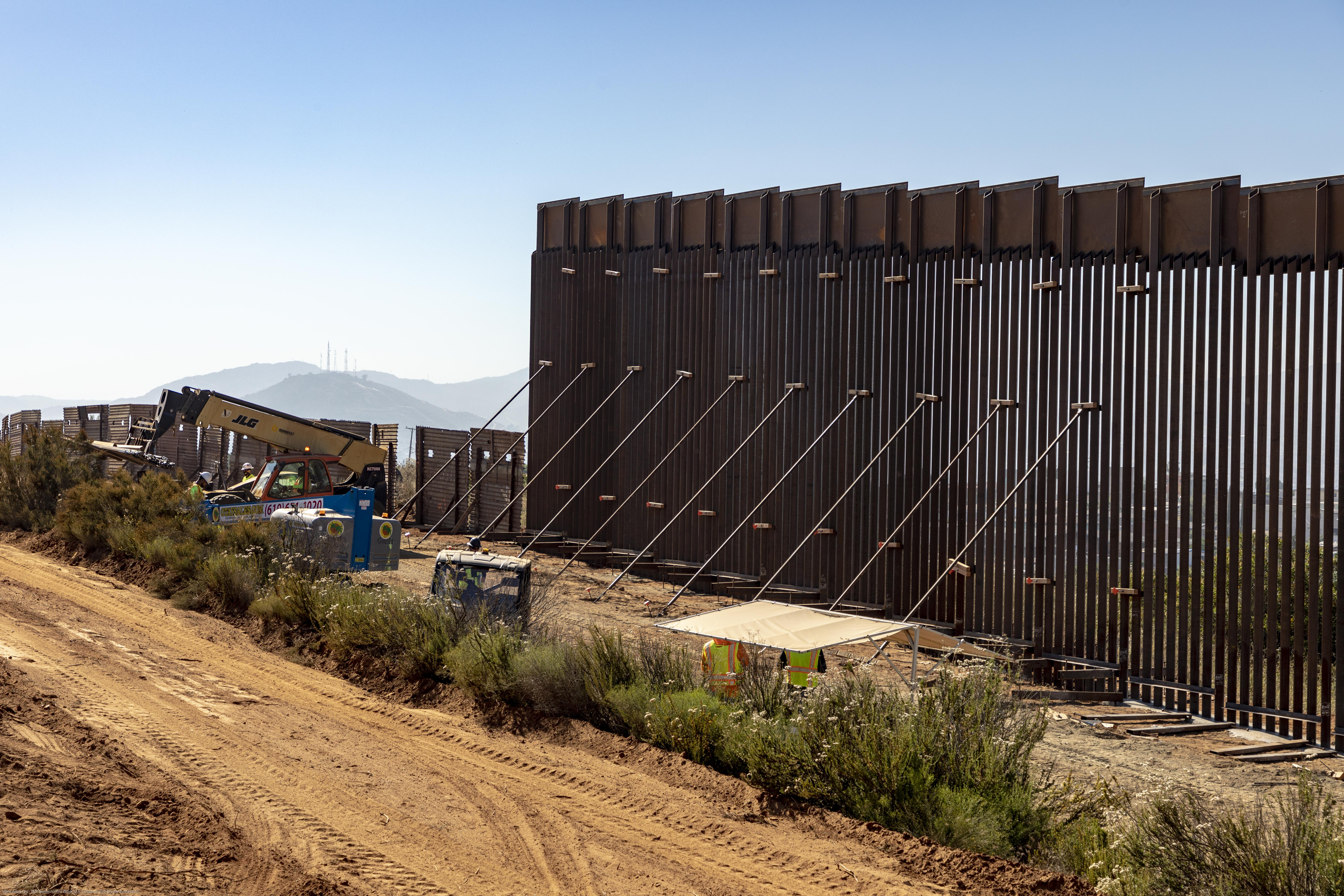 On 06-19-1019 construction crews continue work on the replacement border wall on the boundary between the United States and Mexico near the Calexico Port of Entry. Photo by Mani Albrecht U.S. Customs and Border Protection Office of Public Affairs Visual Communications Division